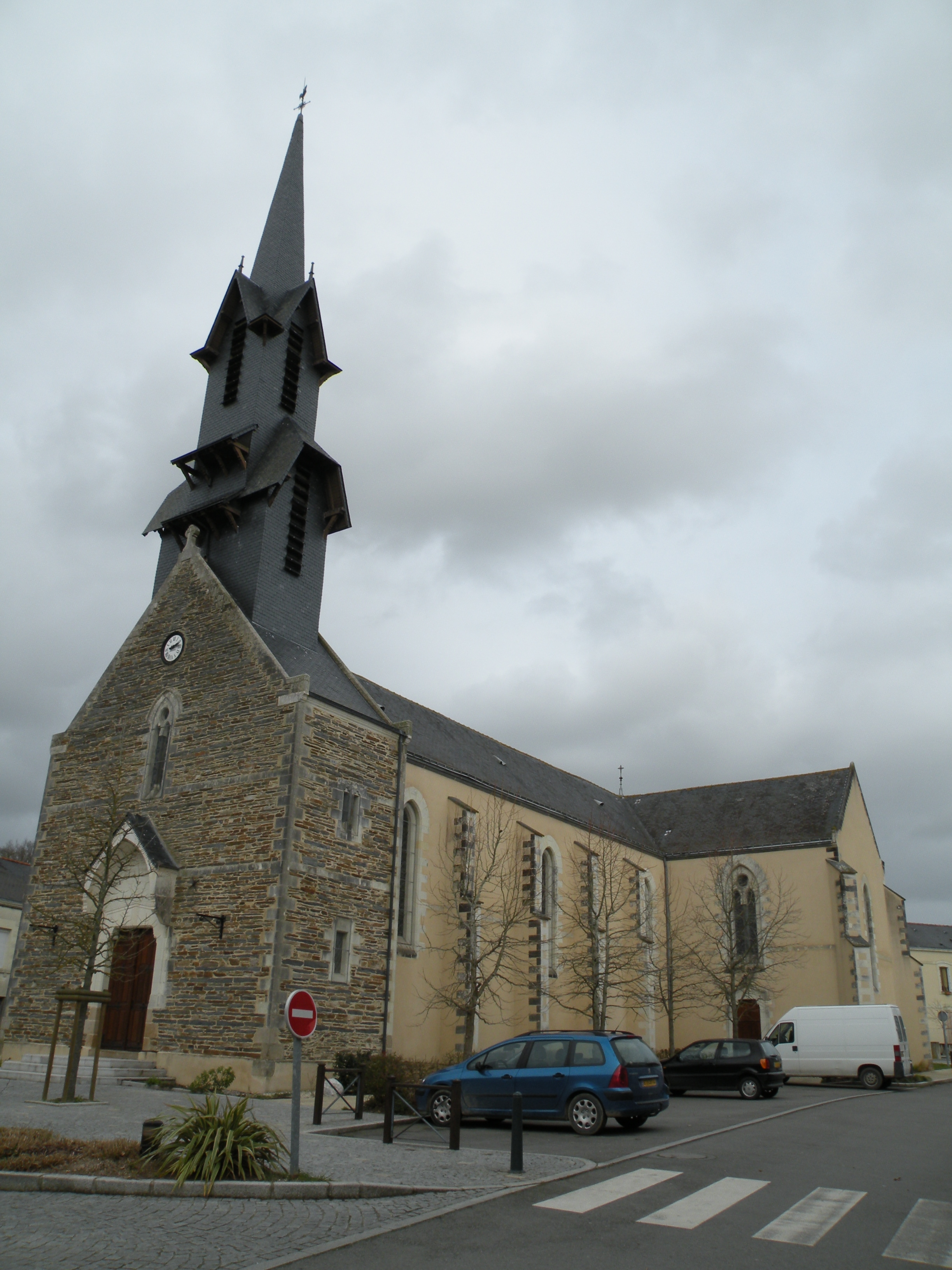 Church of La Chevallerais